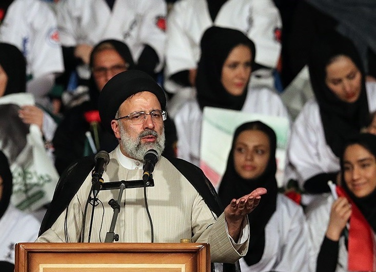 Ebrahim Raisi supporters campaigning in Tehran, Iran for 2017 presidential election